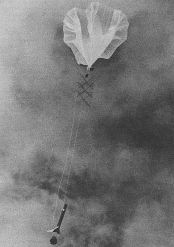 A Navy rockoon just after a shipboard launch. A Deacon rocket is suspended below the balloon